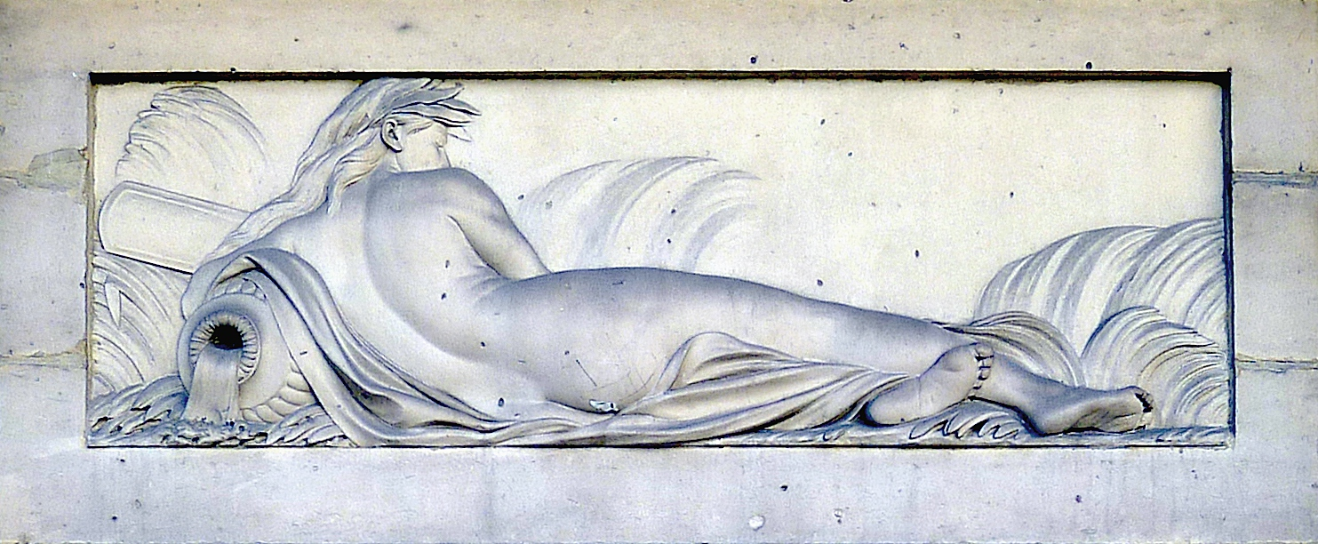 Bas-relief of a naiad on the Haudriettes Fountain (1764) in Paris